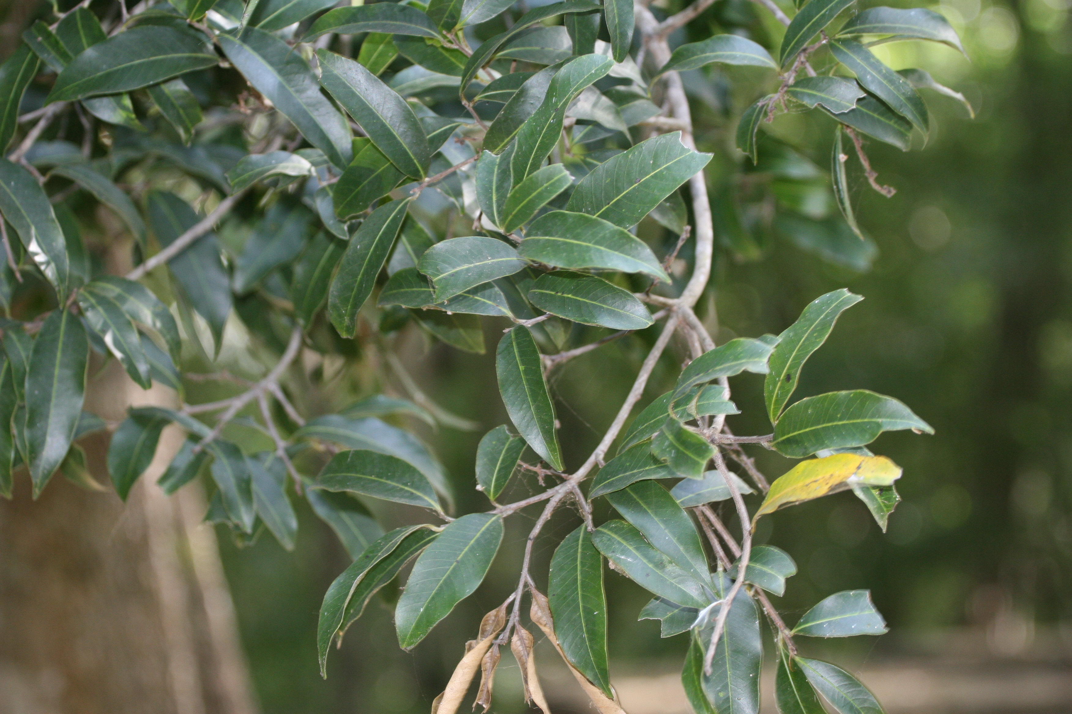 At Kandalama Kaludiya Pokuna